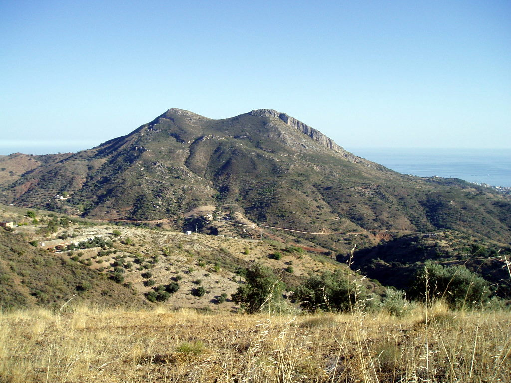 Montes de Málaga, Spain